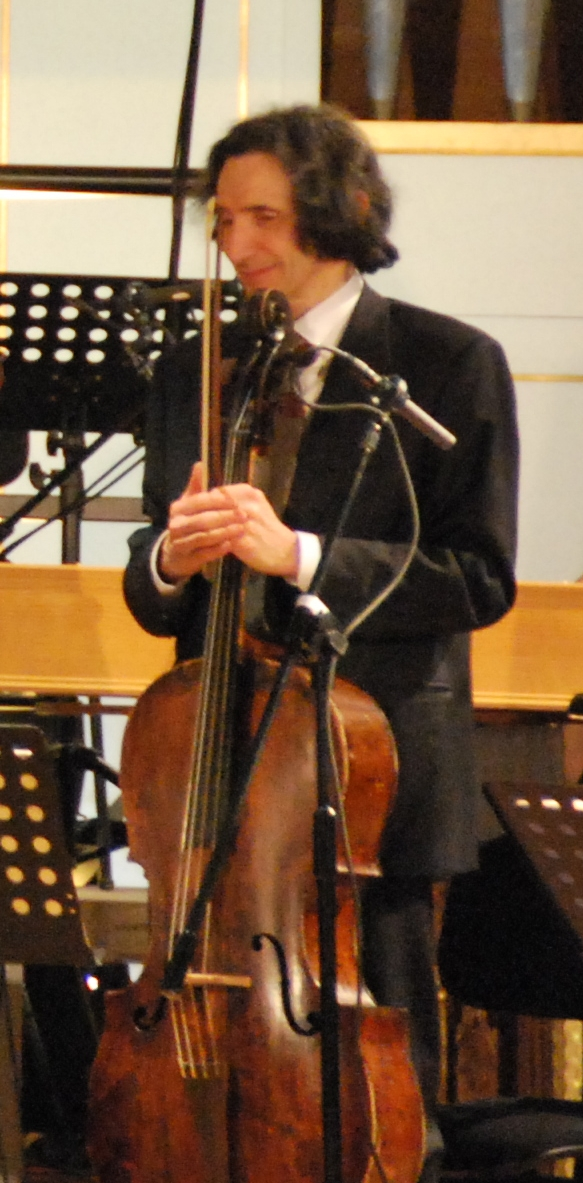 Paolo Beschi, Misteria Paschalia Festival, Kraków Philharmonic, 04.04.2010.